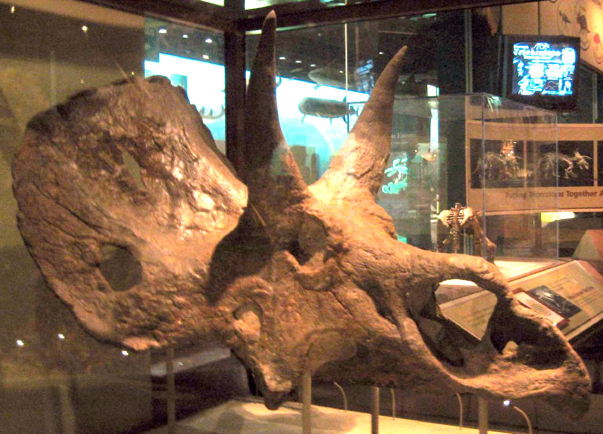 70 - 65 million years ago Late Cretaceous Item number: USNM 2412 This is the only known specimen of the Nedoceratops.